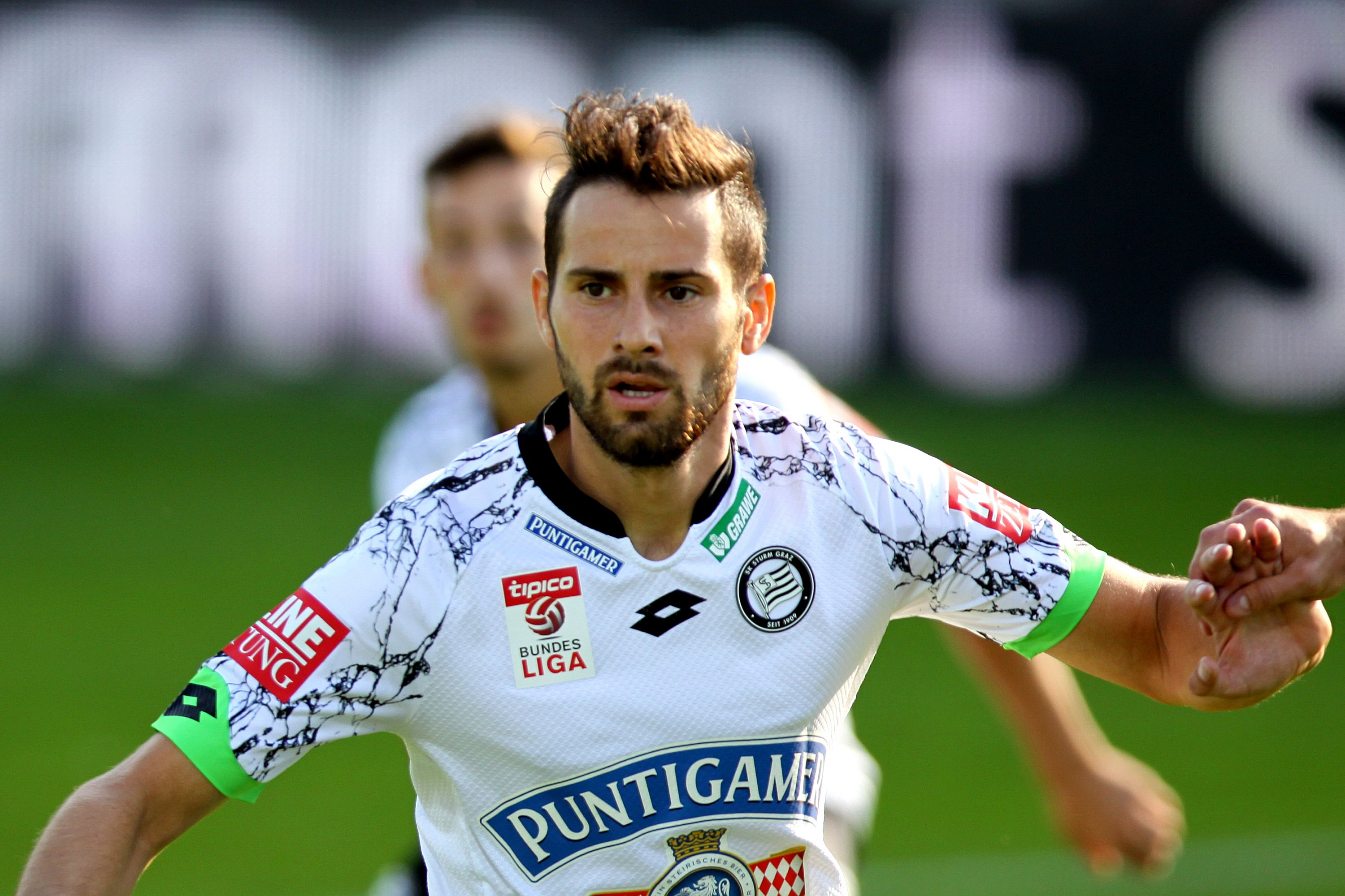 Match of the Austrian Football Bundesliga – SV Mattersburg (green shirts) vs. SK Sturm Graz (white shirts) on 2015-09-13 in Pappelstadion, Mattersburg – The photo shows Josip Tadic